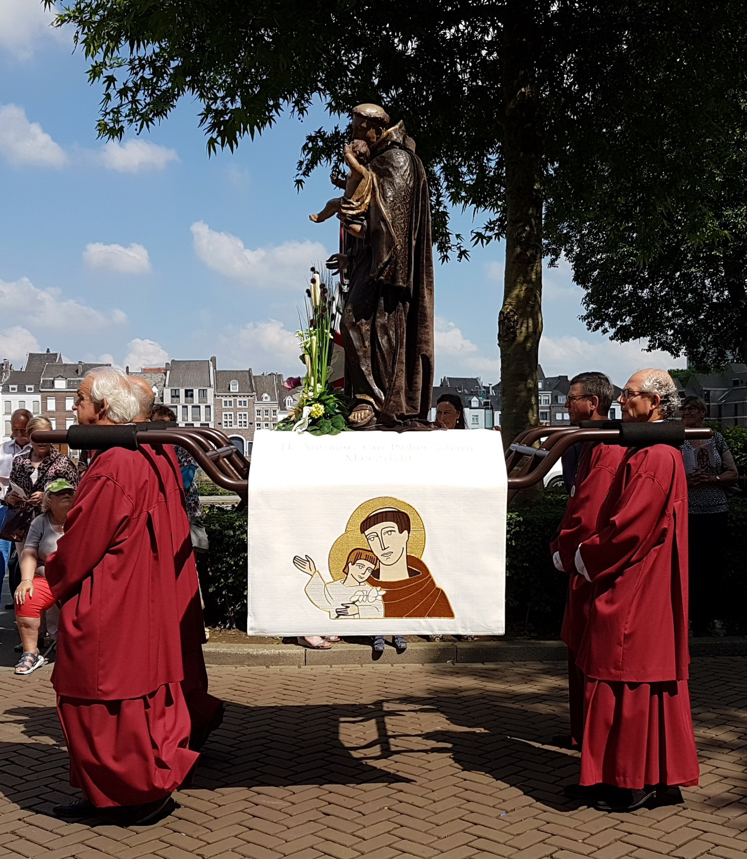 Participants in a historic religious procession during the 2018 Heiligdomsvaart (Relics Pilgrimage) in Maastricht, Netherlands. The history of this seven-yearly catholic pilgrimage goes back to the Middle Ages. The first 'modern' version took place in 1874. On both Sundays of the 10-day festival, a procession is held in which the main relics and other devotional objects are exhibited. This photo was taken at Het Bat during the (second) procession on Sunday 3 June 2018. This particular group represents the Maastricht neighbourhood and parish of Scharn, where Saint Anthony of Padova is venerated.